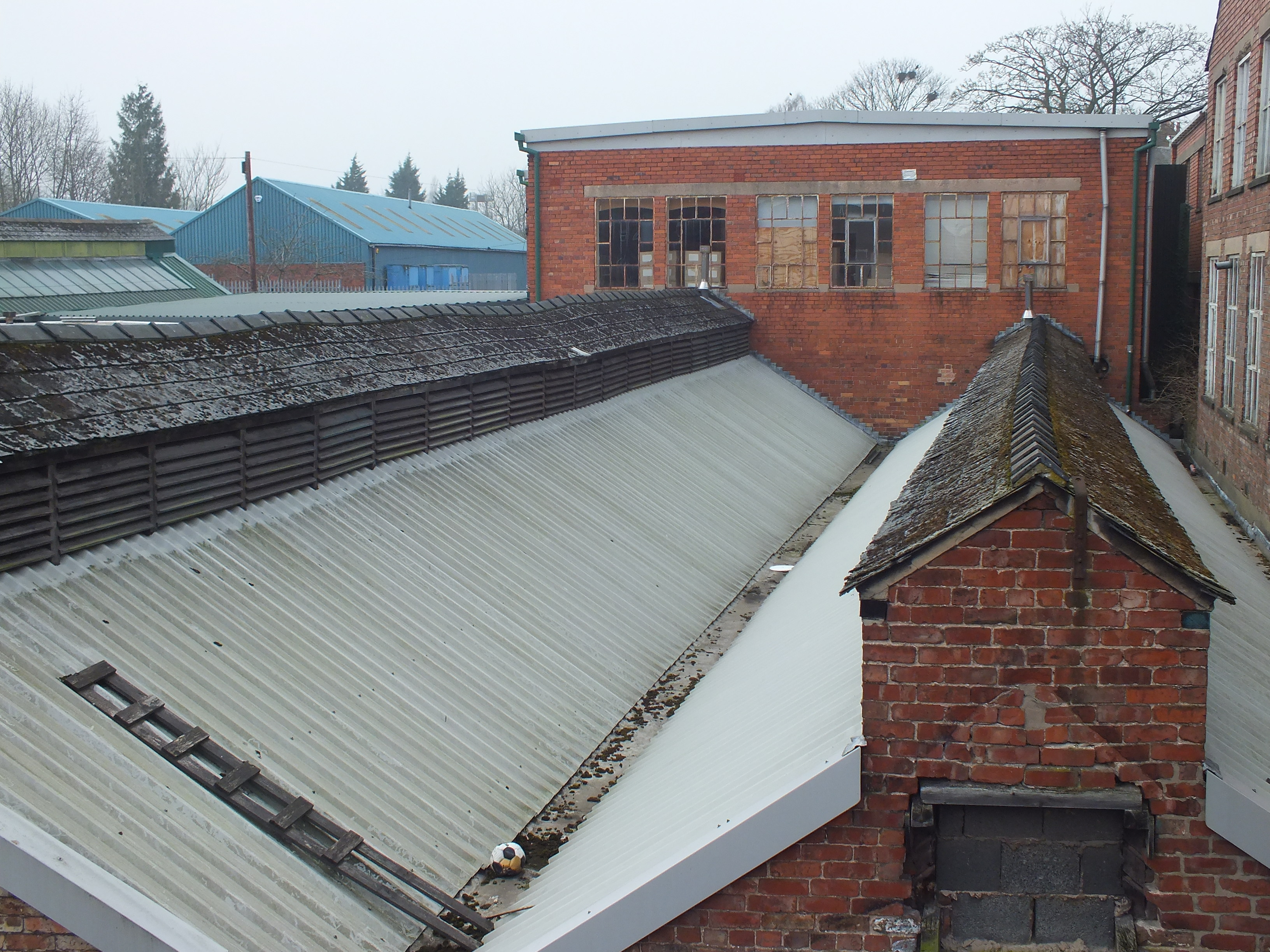 Macclesfield was a town of silk mills Chester Road Mill single storey dyeing sheds, with the louvred ventilators on the roof.